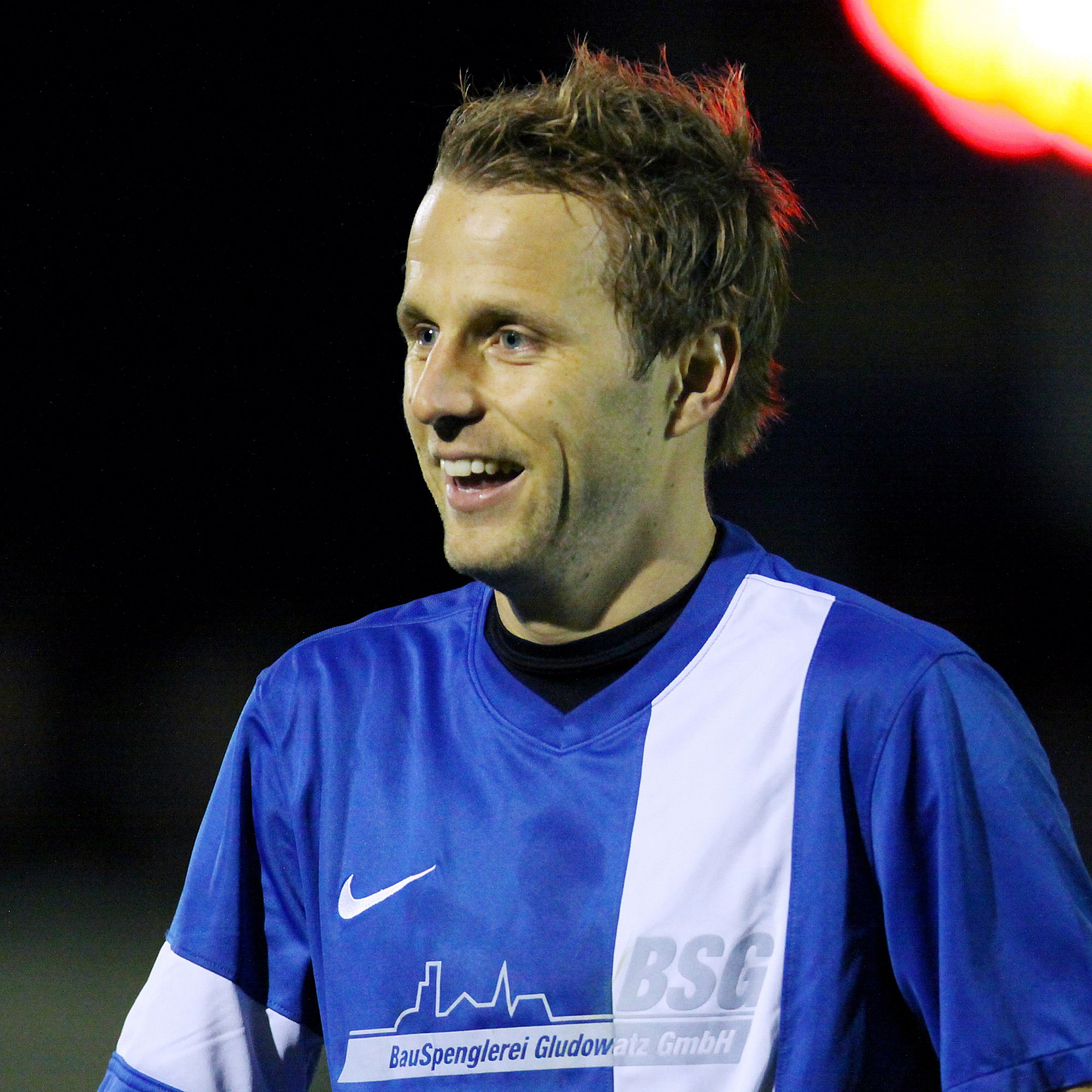 Austrian Cup – ASK Ebreichsdorf (blue shirts) vs. SC Wiener Neustadt (white shirts) on 2015-09-22 in Ebreichsdorf, 3-1 (1-1) – The photo shows Dominik Höfel (ASK Ebreichsdorf)